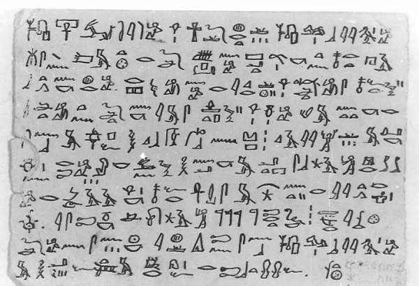 Pahor Labib was one of the world leaders in the Coptic language. He was well versed in Heiroglyphs. A postcard in Heiroglyph from Professor Herman Grapow to his student Pahor Labib sent in 1933 illustrates this point.